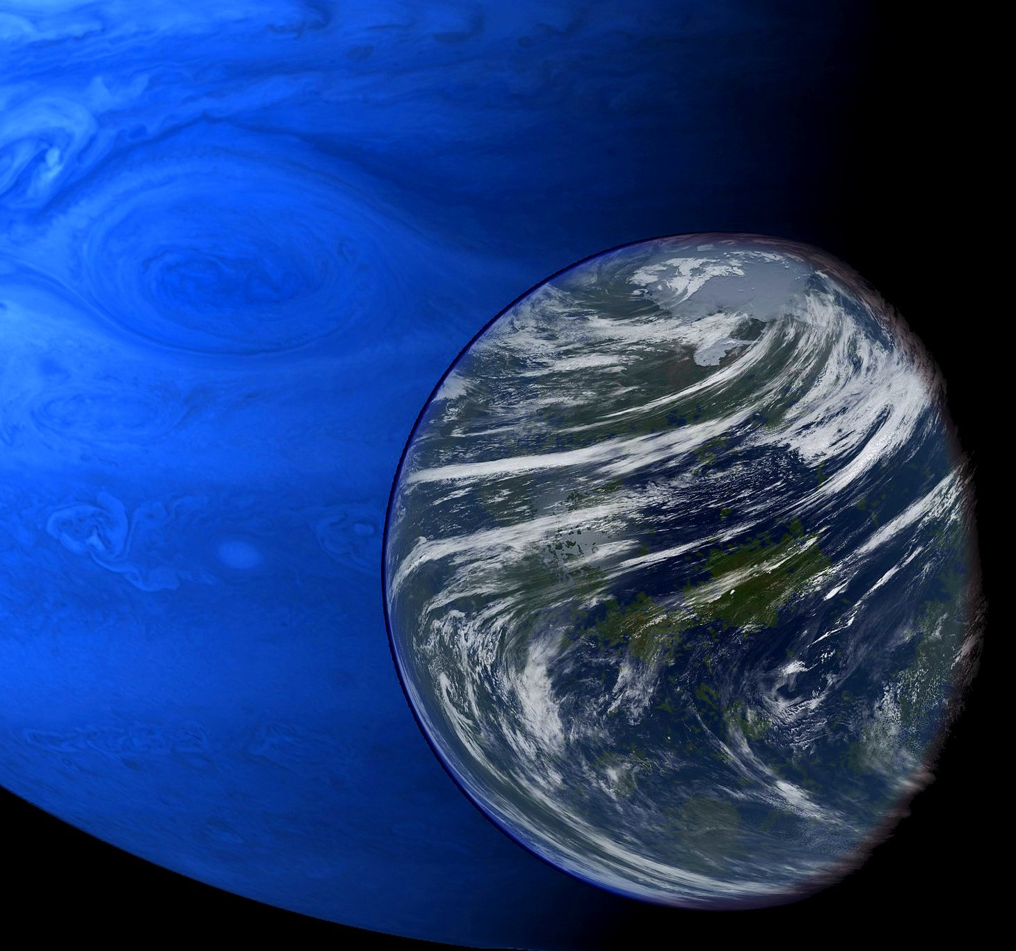 Illustration of the planet Polyphemus and its moon Pandora from the film "Avatar", based on a photograph of the planet Jupiter and an artist impression of Venus.